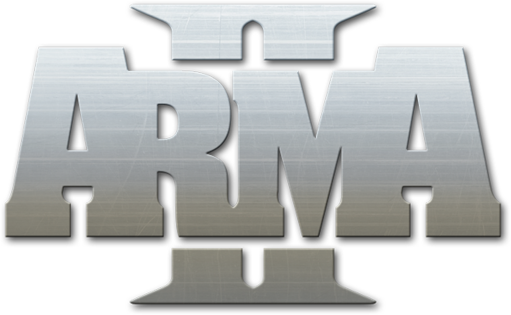 Logo of the 2009 video game, ARMA 2.